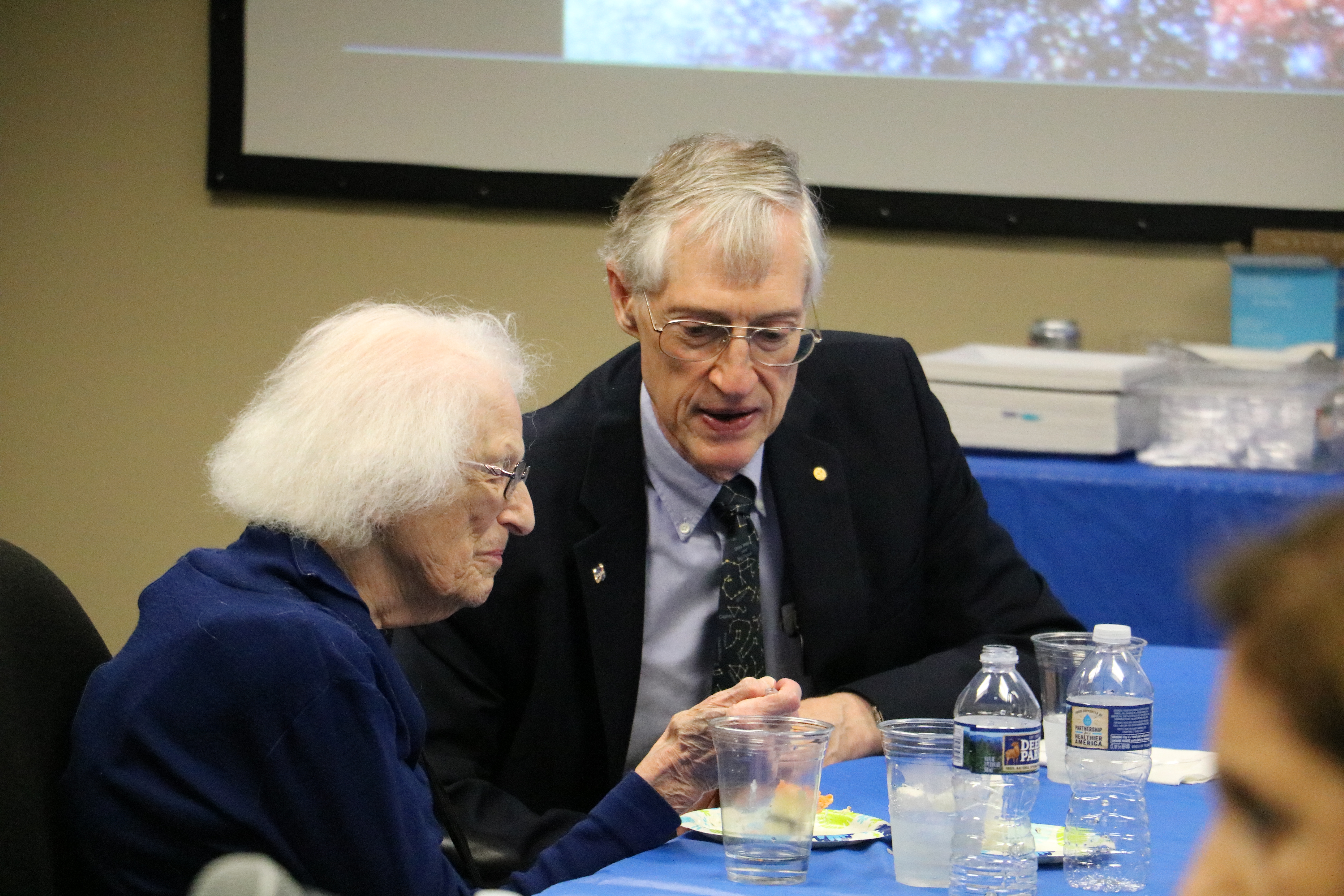 Dr. Nancy Grace Roman, NASA's first Chief of Astronomy, talks with Nobel laureate Dr. John Mather at a luncheon on March 31, 2017, at NASA's Goddard Space Flight Center in Greenbelt, Maryland. Credit: NASA/GSFC/Jim Jeletic